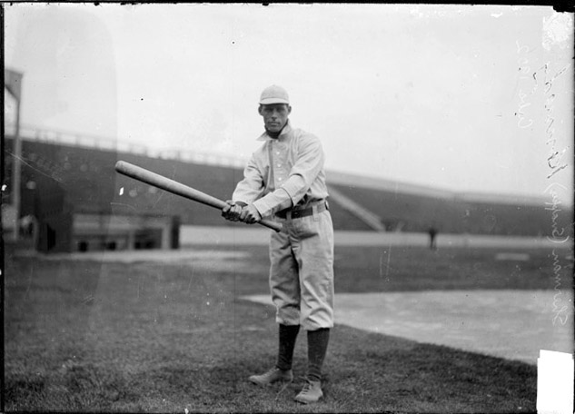 Chicago Daily News negatives collection, DN-0003451. Courtesy of Chicago History Museum.